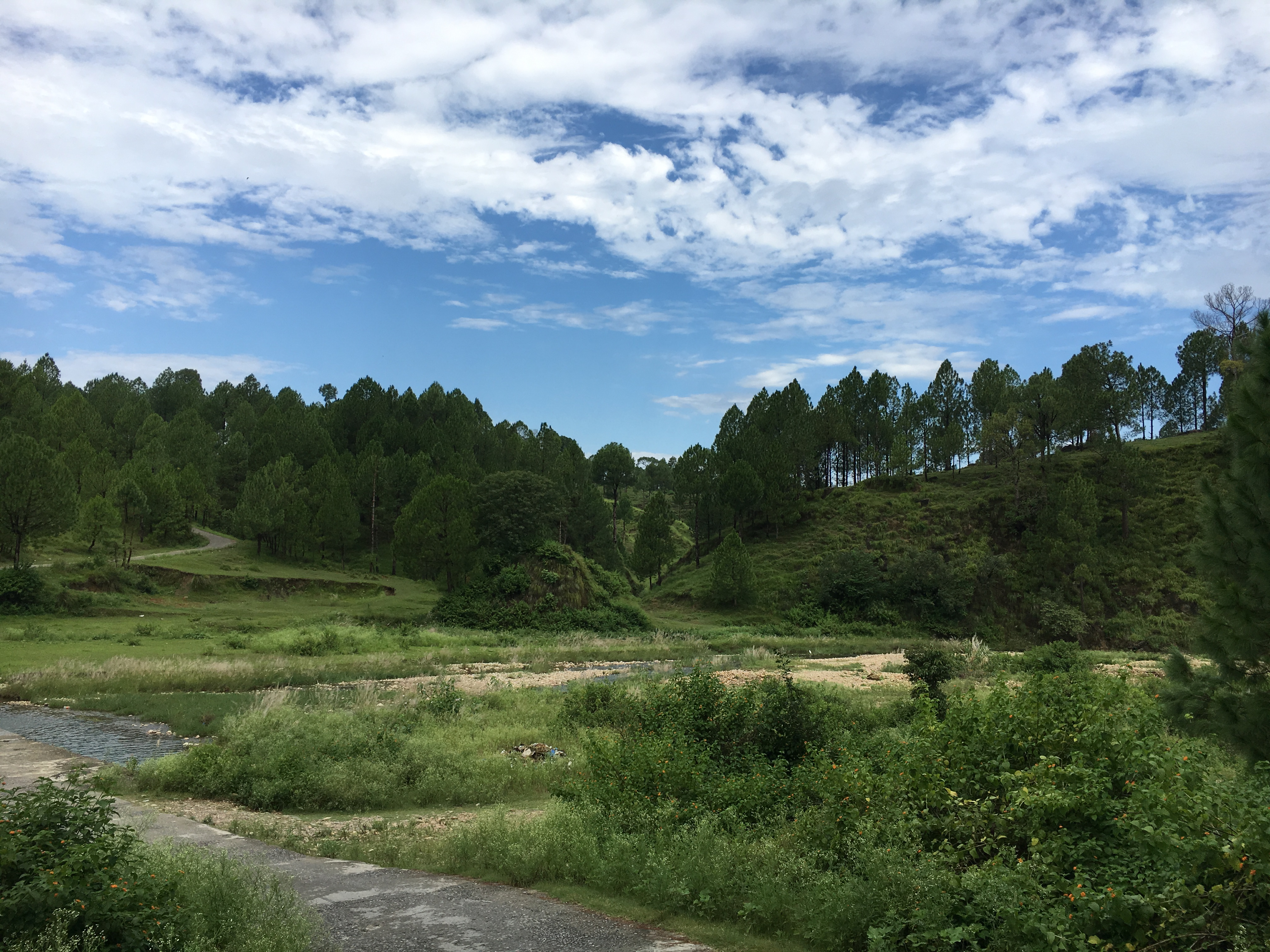 The picture is taken from khateel a village in kahuta ,distt rawalpindi